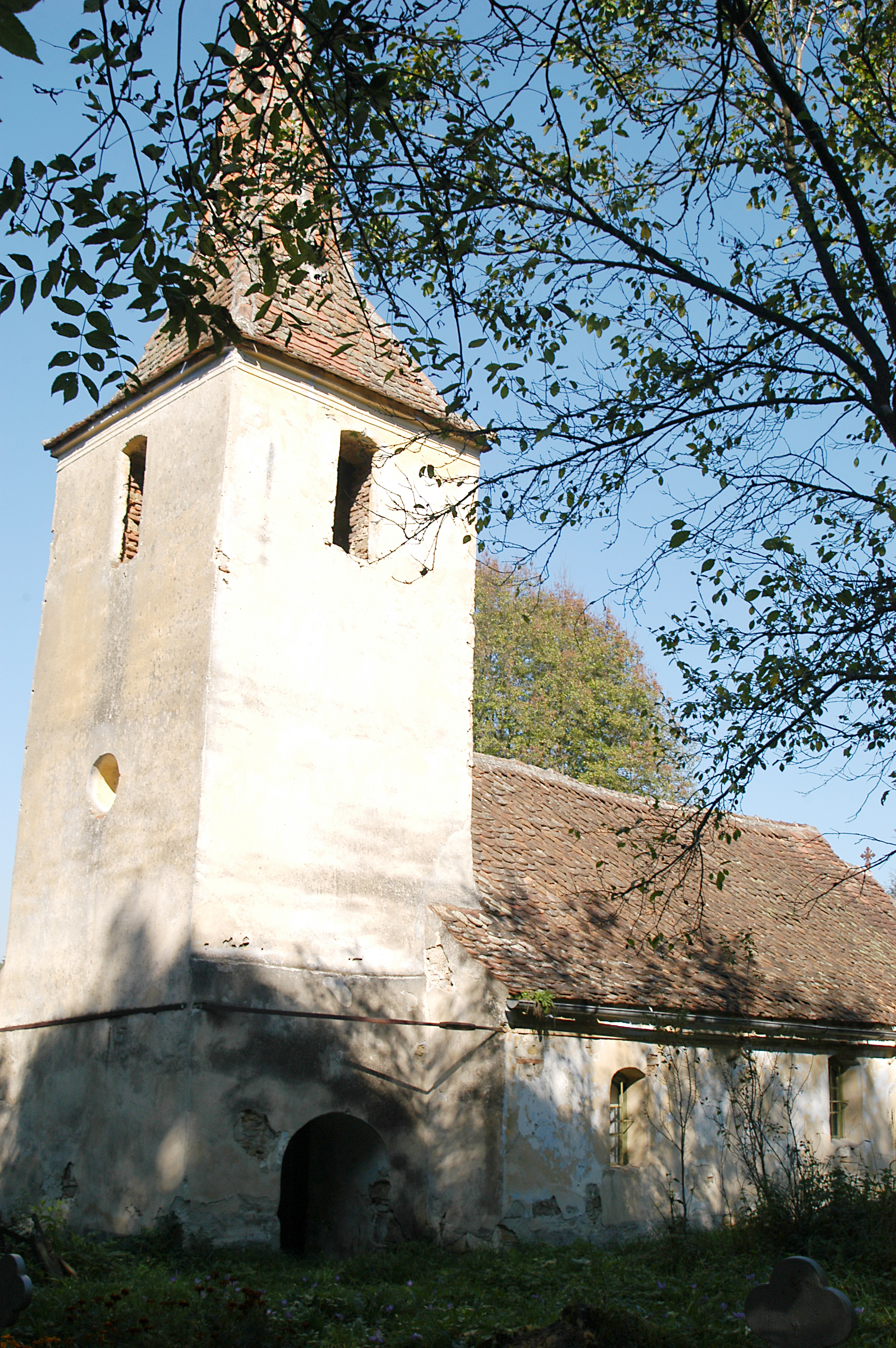 orthodox church in Gherdeal, Sibiu county